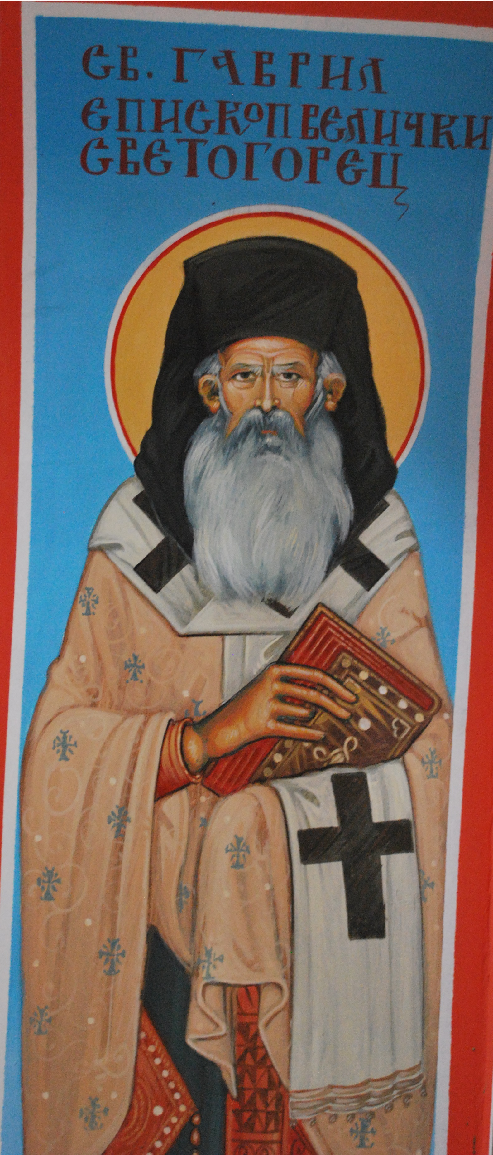 St. Paul Church in Park Ginovci near Kriva Palanka, Macedonia